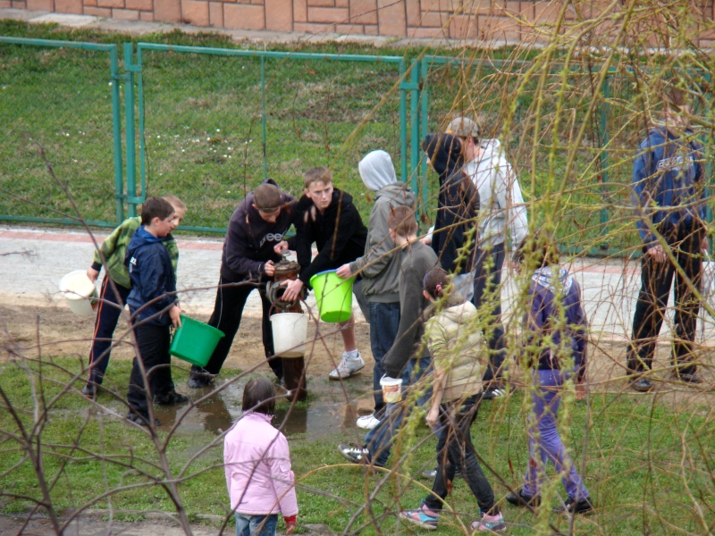 Śmigus-dyngus (Wet Monday), Zamkowa street, Sanok, Poland